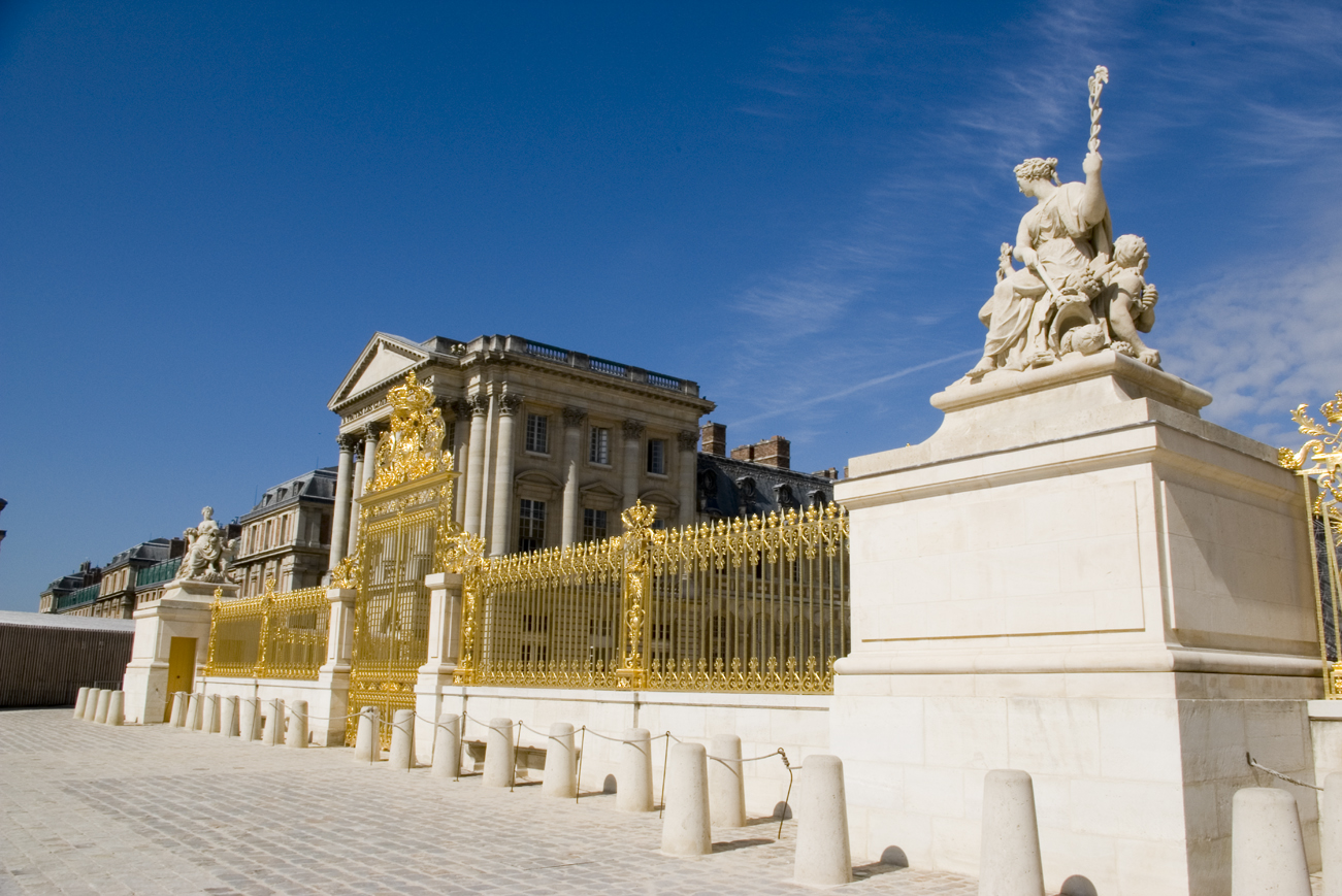 Reconstitution de la grille Royale séparant la cour d'Honneur de la cour Royale